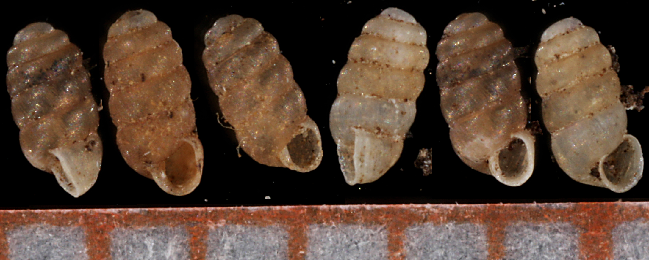 Truncatellina arcyensis Klemm, 1943, Vertiginidae, Pulmonata, Gastropoda, Locality: Arcy sur Cure, north of Avalon, Burgundy, France